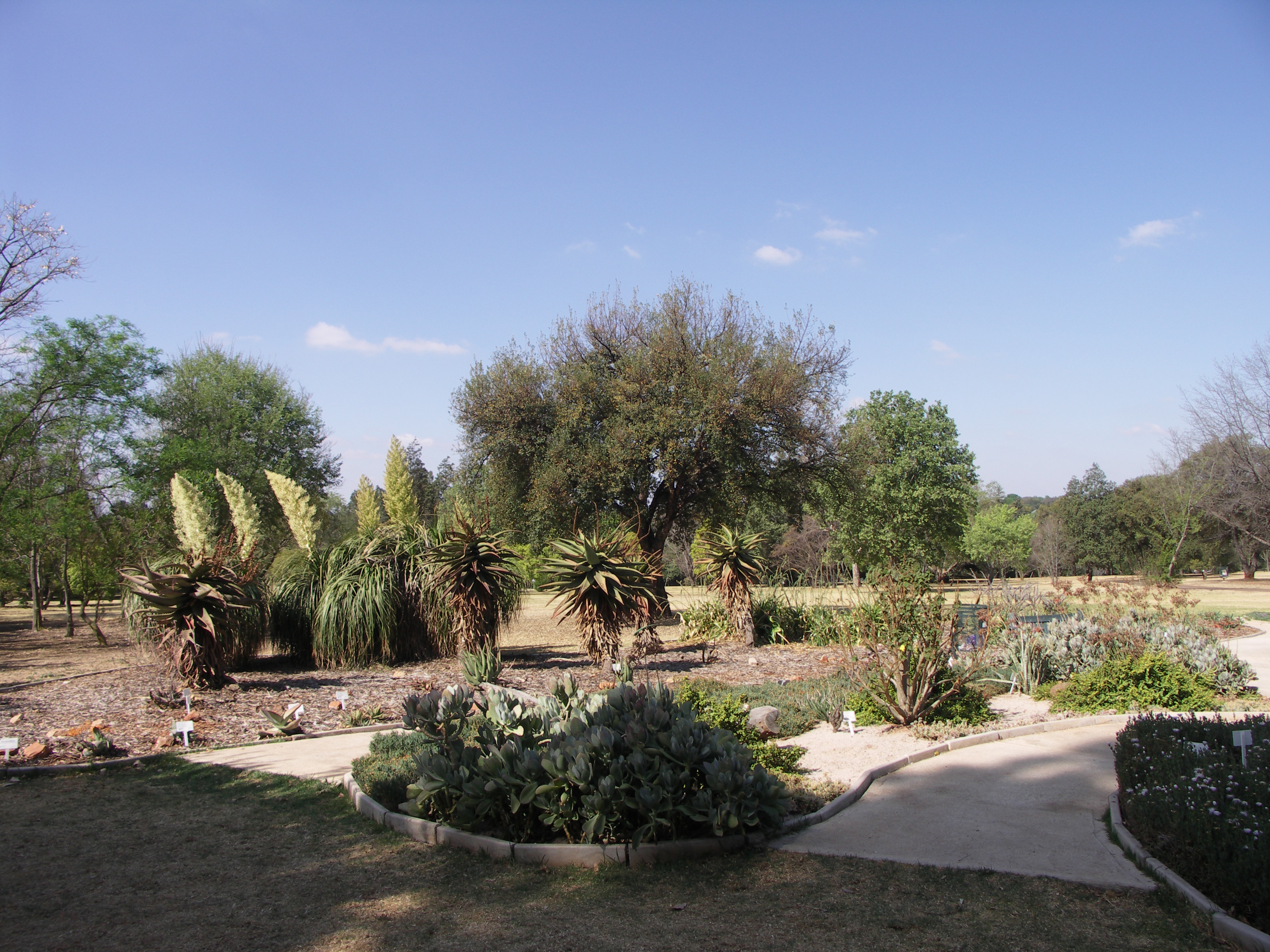 Small garden within the Johannesburg Botanical Garden.